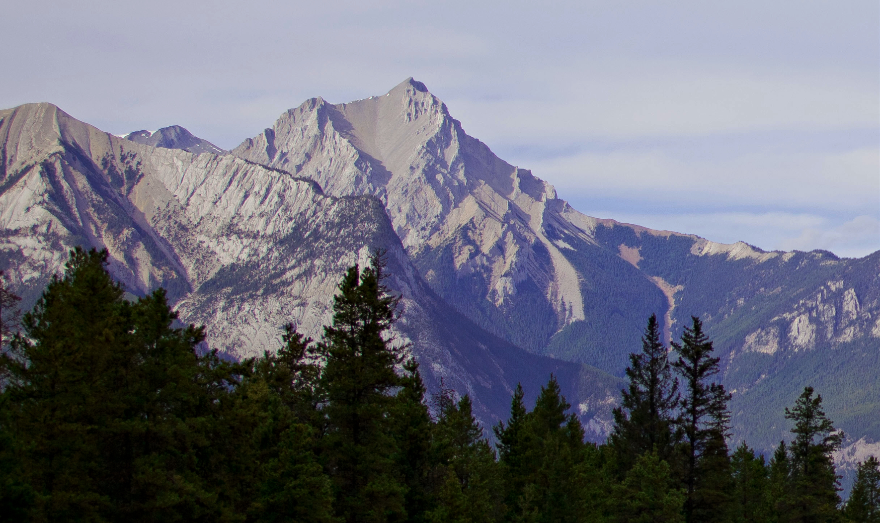 Gargoyle Mountain in Jasper Park, Canada as seen from Highway 16